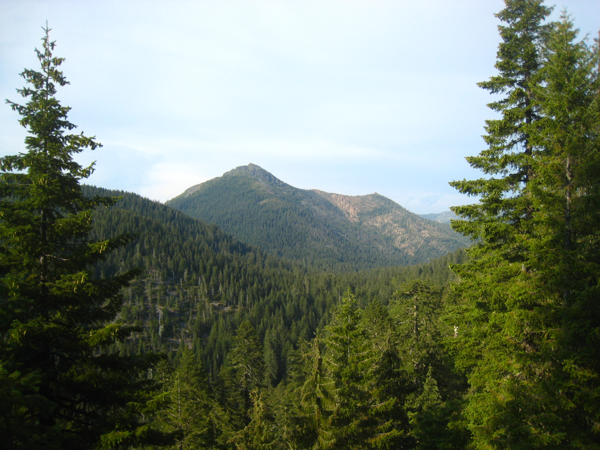 Mixed conifer forest dominated by Pseudotsuga menziesii, in the Siskiyou Mountains, California